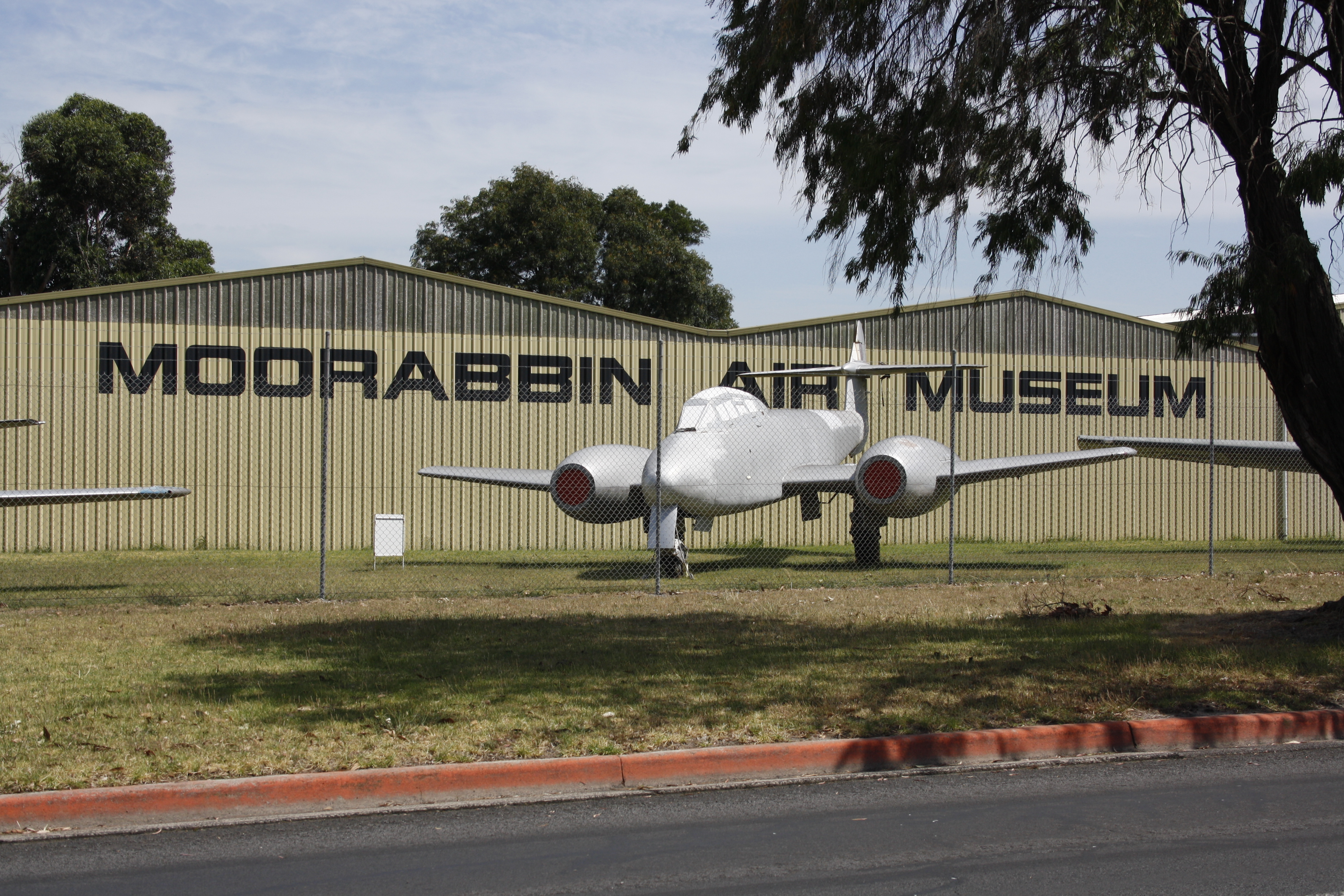 Australian National Aviation Museum, labelled as "Moorabbin Air Museum"